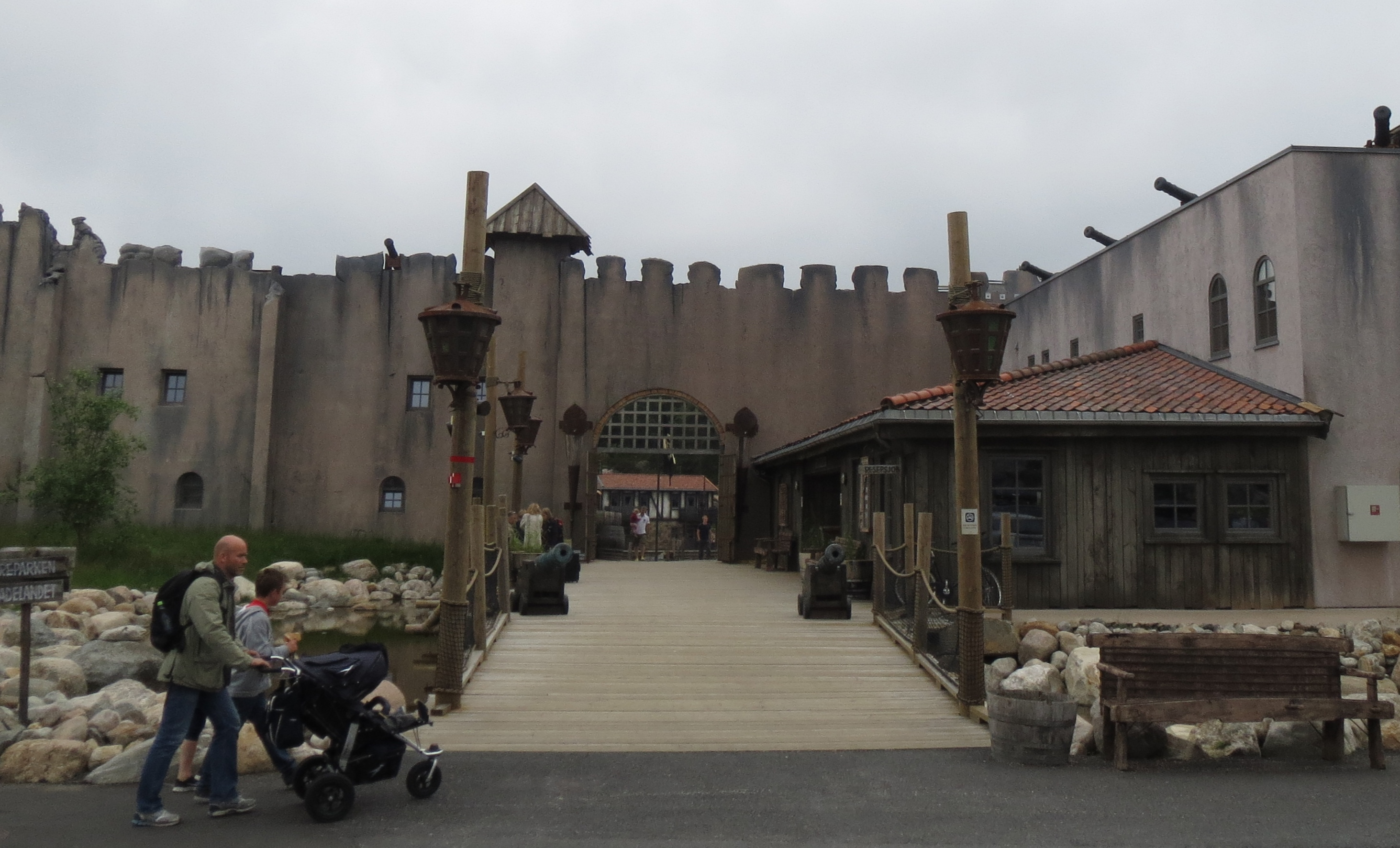 Abra Havn by Kristiansand Zoo and amusementpark, Norway